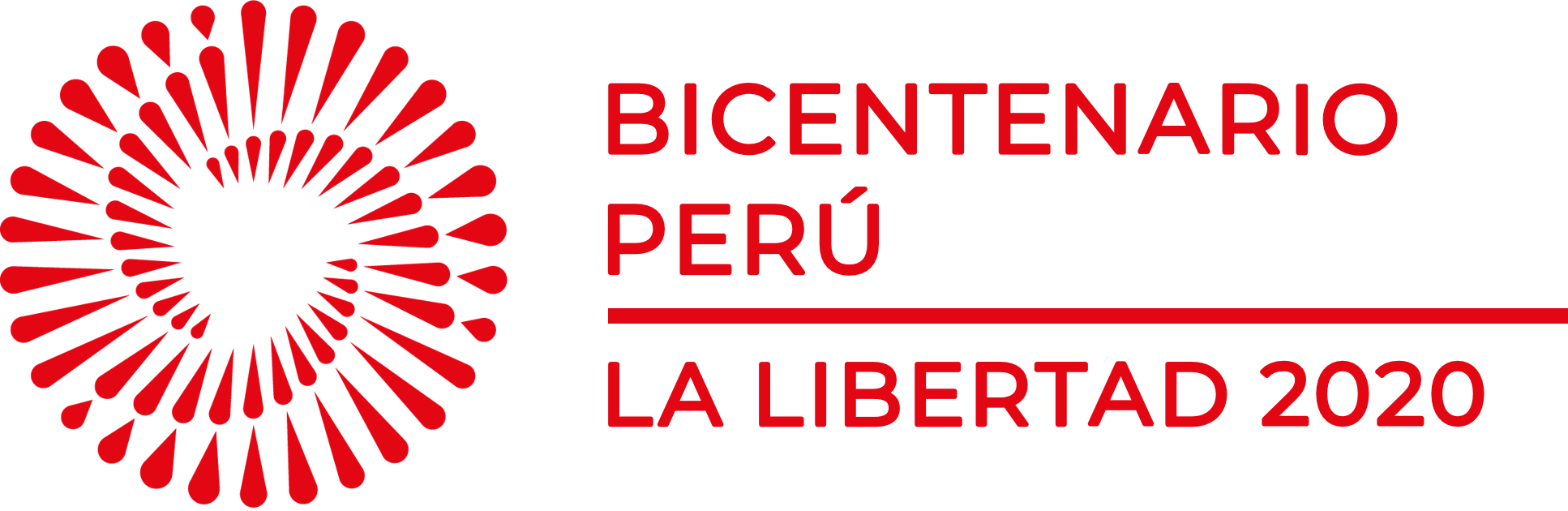 Horizontal Logo of the Bicentennial 2020 in La Libertad, Peru.